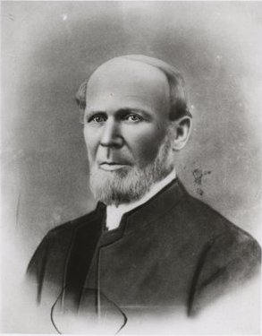 Wellington Jeffers (22 June 1814 – 10 February 1896) was a Canadian teacher, Methodist minister, and editor